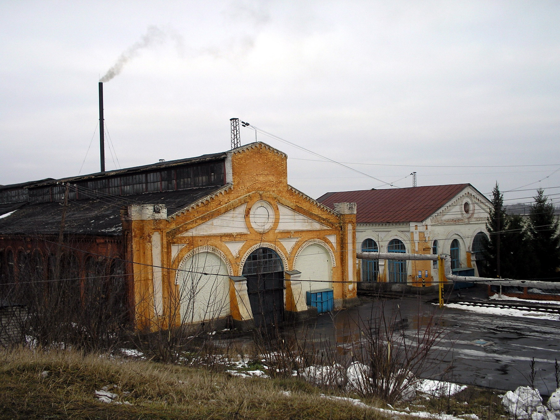 Rtishchevo. The former locomotive depot